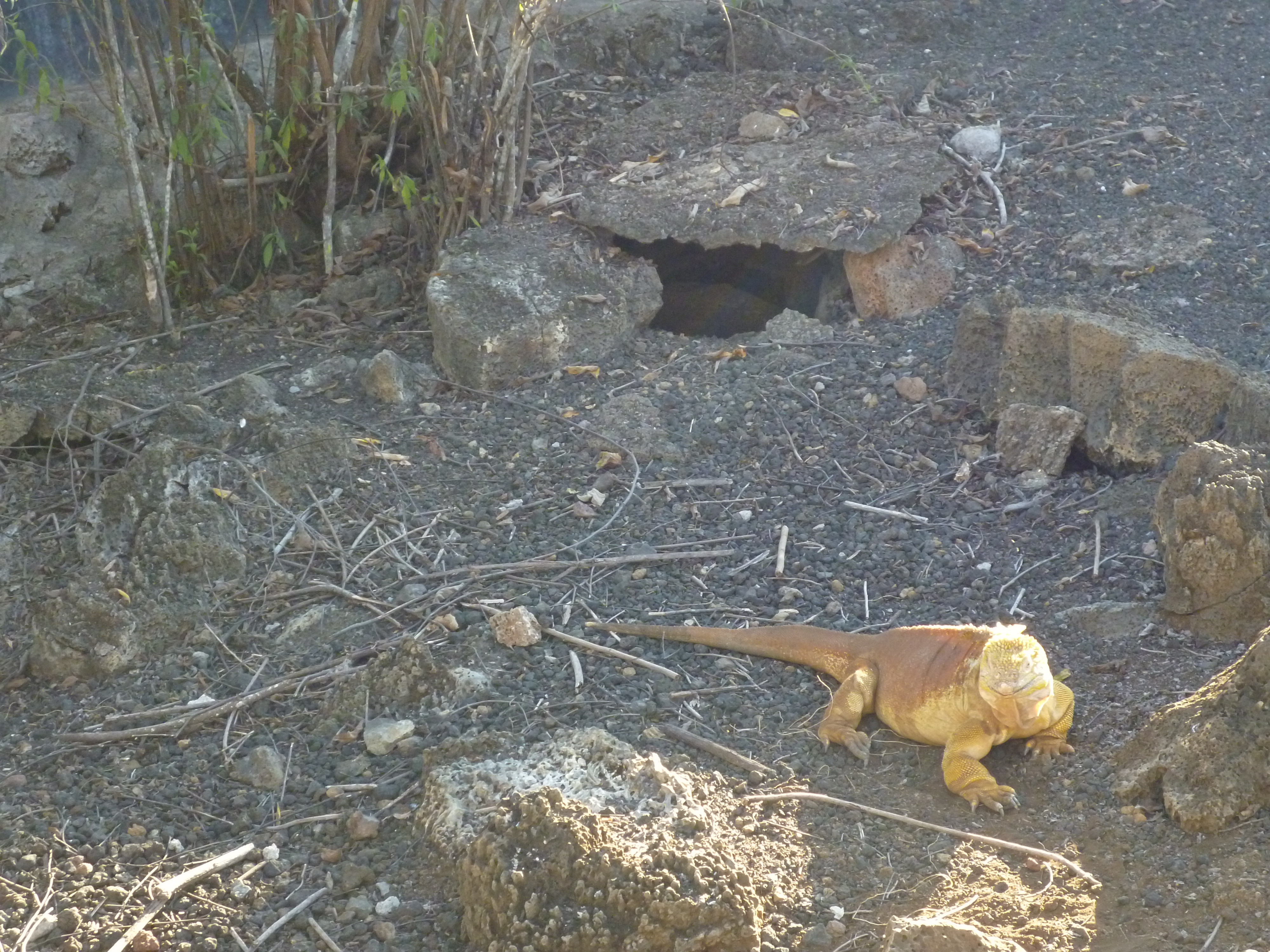 A photograph of a Yellow Land Iguana, also known as the Galapagos land iguana (Conolophus subcristatus) - inside the Charles Darwin Research Station - Puerto Ayora - Island of Santa Cruz - Galapagos